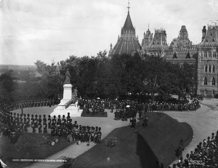 Royal Tour: unveiling the Queen's statue on Parliament Hill by Duke and Duchess of Cornwall and York (later, King George V and Queen Mary). Ottawa, Canada